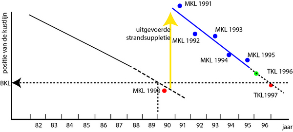 definition of the coastline to be assessed for potential beach nourishment